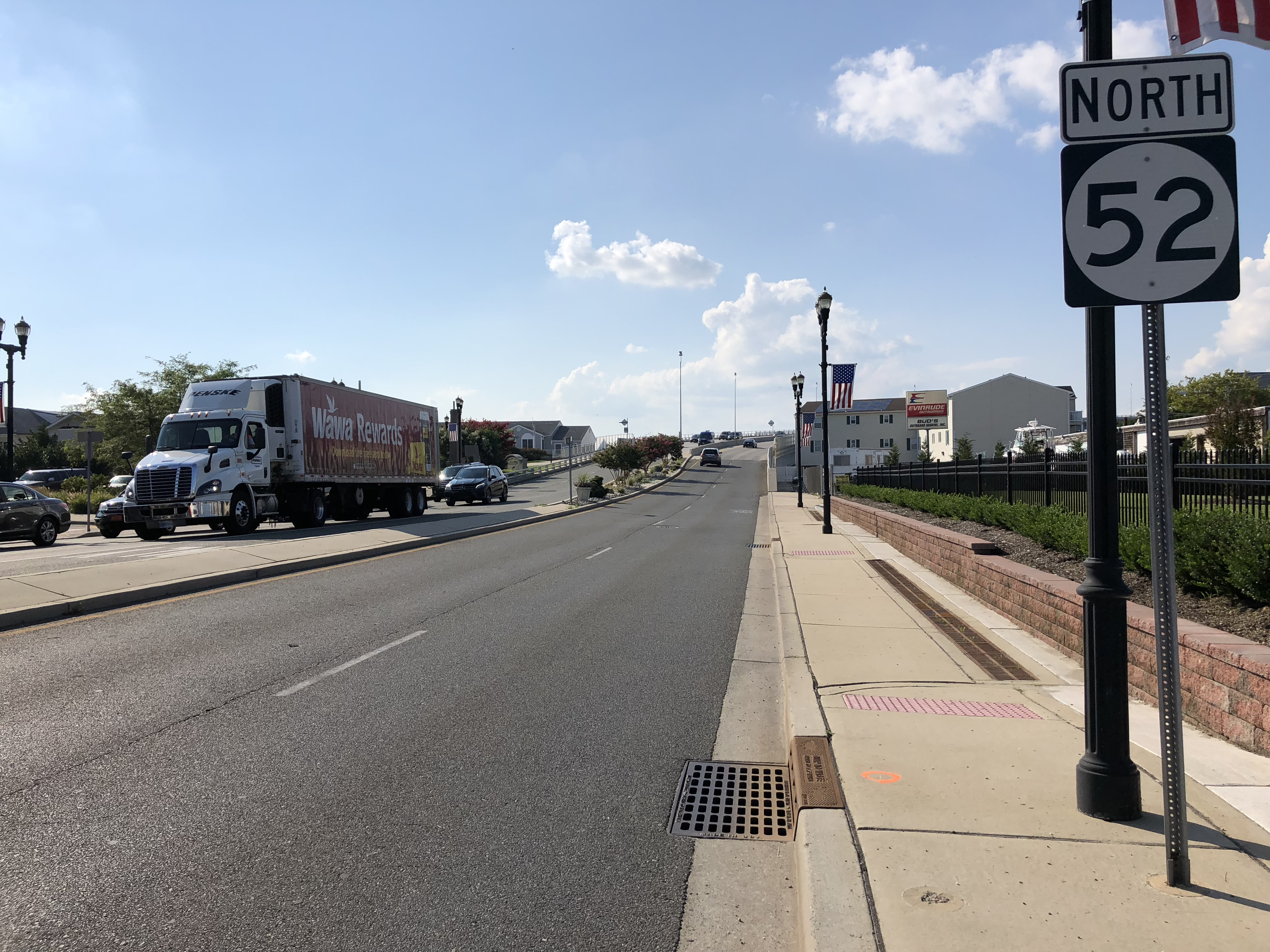 View north along New Jersey State Route 52 (9th Street) just north of Cape May County Route 656 (Bay Avenue) in Ocean City, Cape May County, New Jersey